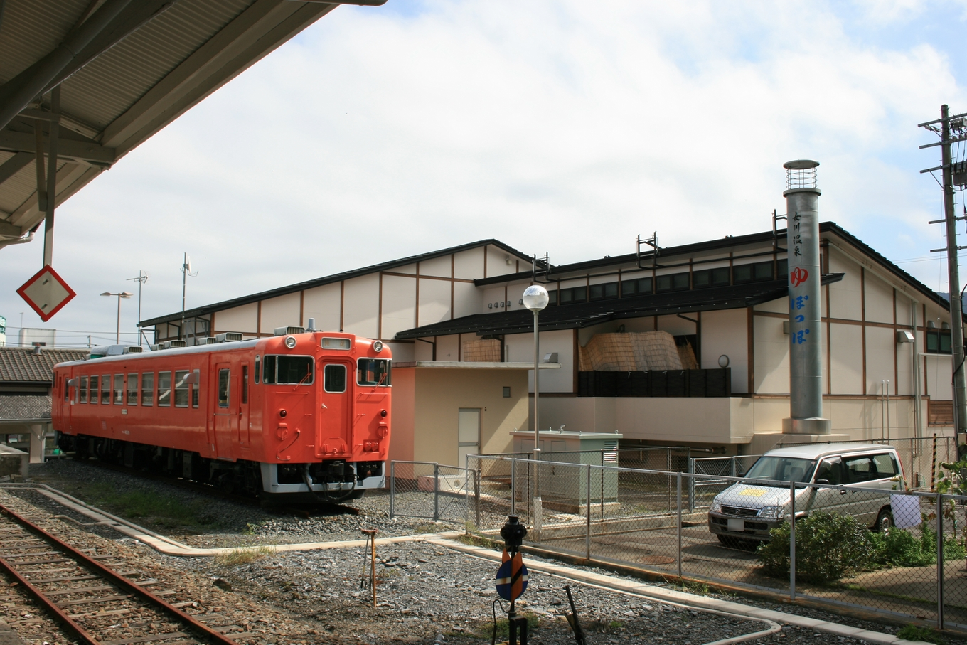 Former JR East KiHa 40 519 DMU car preserved as a lounge room for an onsen facility next to Onagawa Station on the Ishinomaki Line in Miyagi Prefecture